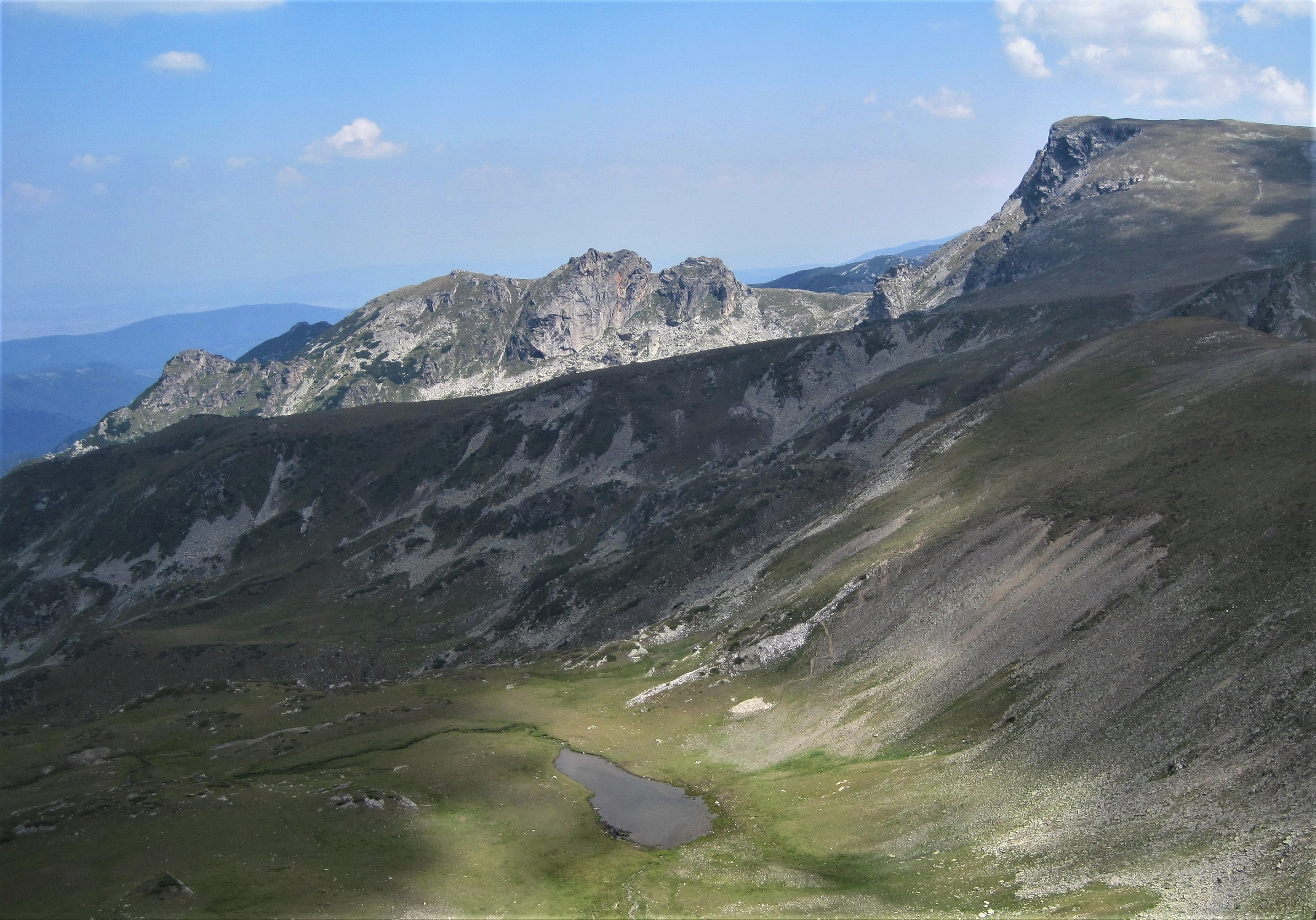 Ushite Peak (left) and Malyovitsa Peak in Rila Mountain, Buslagia